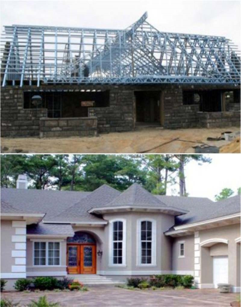 Azad Steel One Azad Al-Shakarchi projects.